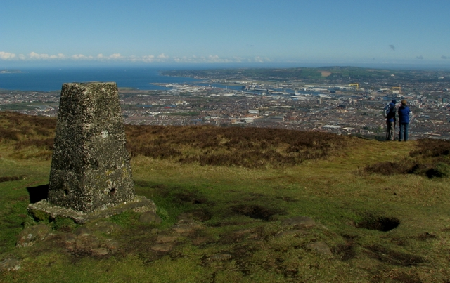 Triangulation Pillar on Black Mountain Black Mountain has two triangulation pillars. This is the northern pillar at a height of 390m. Below in the distance can be seen Belfast with Belfast Lough stretching out beyond.